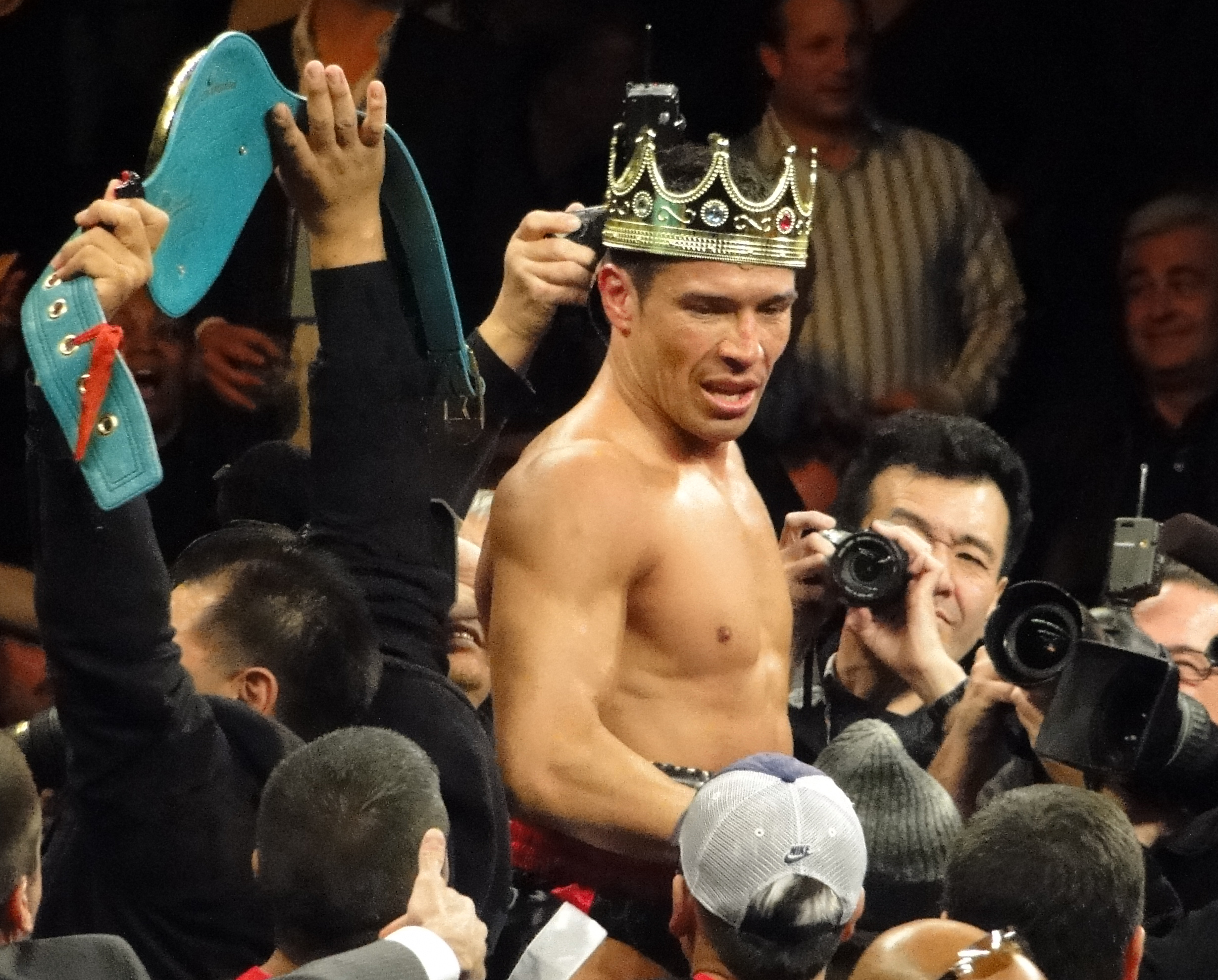 Sergio Gabriel Martínez after defending his title against Paul Williams at the Boardwalk Hall on November 20, 2010.